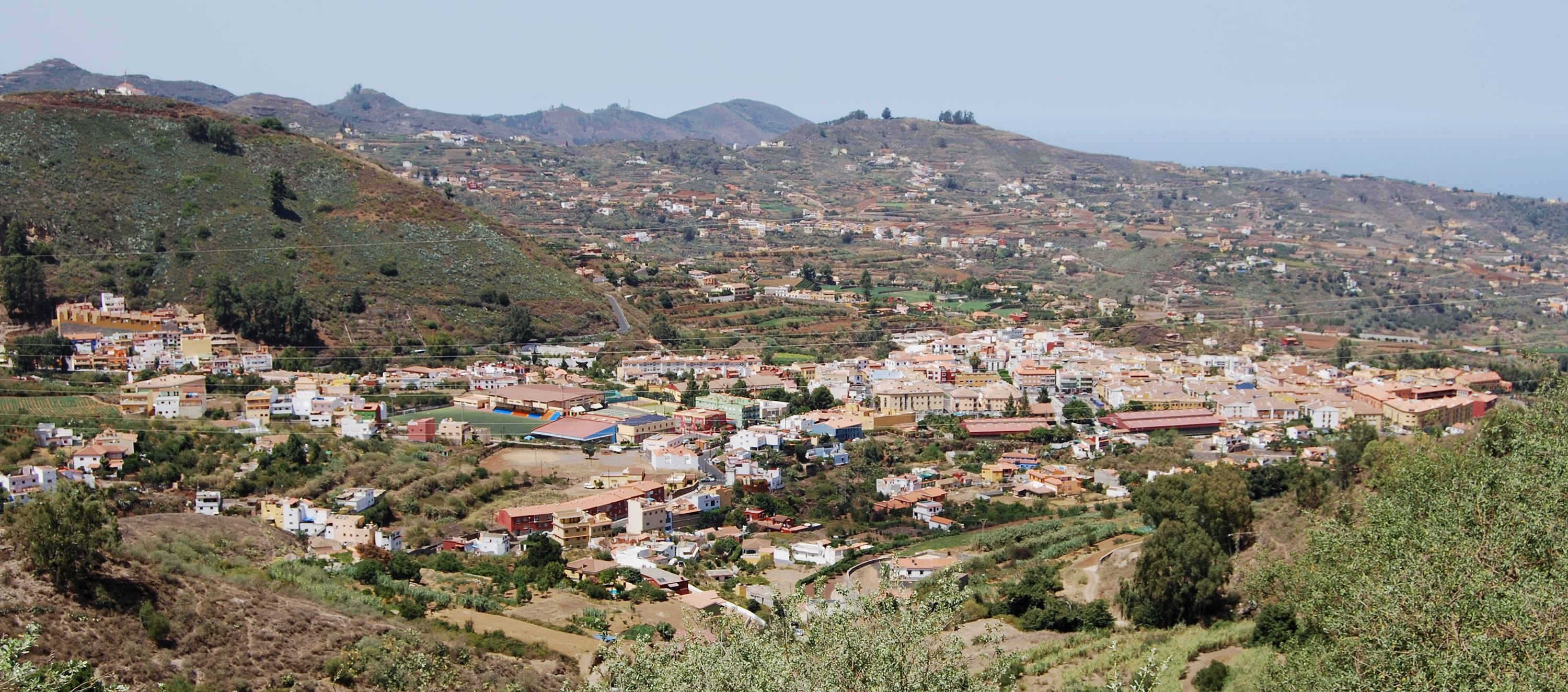 The village of Vega de San Mateo, Gran Canaria.